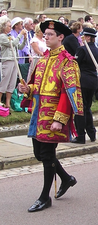 Peter O'Donoghue, Bluemantle Pursuivant, in procession to St George's Chapel, Windsor Castle for the annual service of the Order of the Garter.